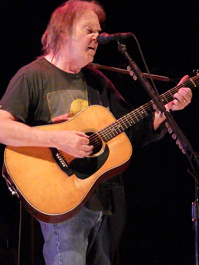 Neil Young at the Trent FM Arena in Nottingham.